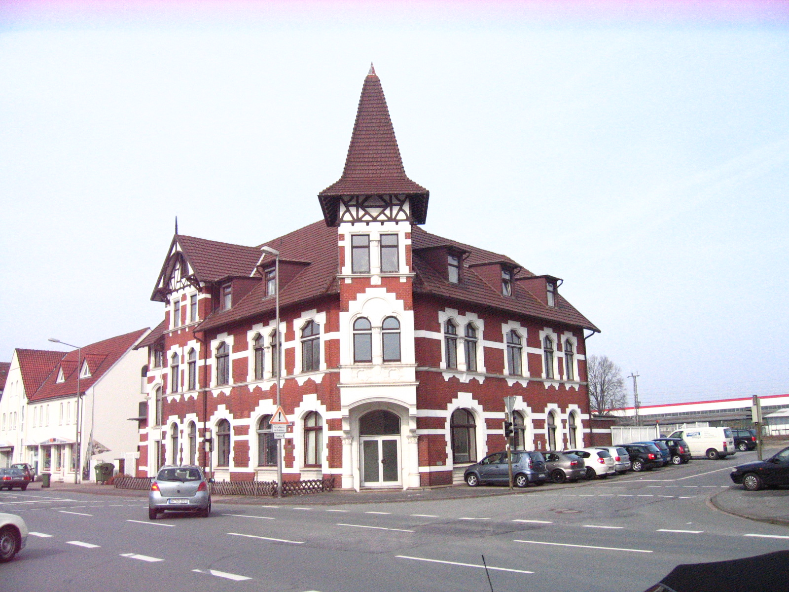 in Bünde, District of Herford, North Rhine-Westphalia, Germany.